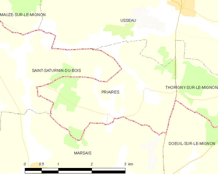 Map of French municipality Priaires